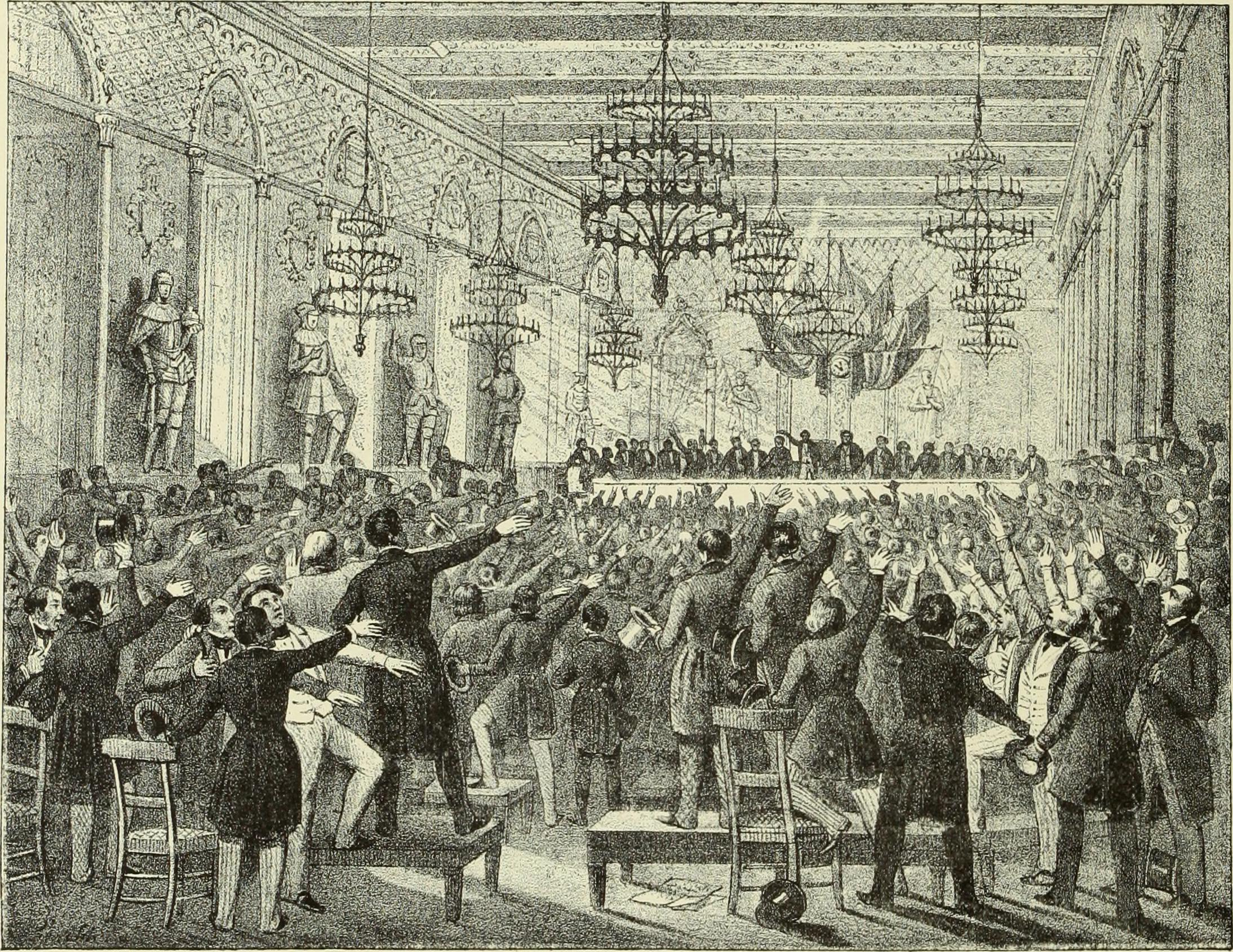 Title: Bruxelles à travers les âges Year: 1884 (1880s) Authors: Hymans, Louis Salomon, 1829-1884 Hymans, Henri, 1836-1912 Hymans, Paul, 1865-1941 Subjects: Publisher: Bruxelles : Bruylant-Christophe Text Appearing Before Image: 358 BRUXELLES MODERNE. La crise la plus grave, la plus grosse des difficultés que la Belgique ait eue à traverser depuis 1830, c'est assurément la période de 1846 à 1848, pendant laquellele continent entier frémissait dans l'attente d'une catastrophe, comme une forêt Text Appearing After Image: Congrès libéral du 14 juin 1846, tenu dans la salle Gothique de l'hôtel de ville de Bruxelles. Facsimilé d'une lithographie communiquée par M. Molenschot. s'agite et vibre à l'approche de l'orage. Il fallut beaucoup de prudence, de sagess eet de tact politique dans cette période si profondément troublée, où les germes révolutionnaires fermentaient dans toute l'Europe, où des ondulations inquiétantes agitaient les couches inférieures avec des rumeurs sourdes et des grondements précurseurs de tempêtes. La Belgique, habilement pilotée par son souverain, aux côtés duquel veillait un conseiller éclairé, mort récemment, mais qui ne sera point oublié, Jules Van Praet (i), échappa à la tourmente. Un publiciste, qui a connu (1) Voir l'étude publiée par l'un de nous, M. Paul Hymans, sur Jules Van Praet, dans le Palais, organe des Conférences du Jeune Barreau de Belgique, 1888, n° IIP CHAPITRE III. 35g intimement Van Praet, M. Prosper de Hauleville, a écrit que si Louis-Philippe av